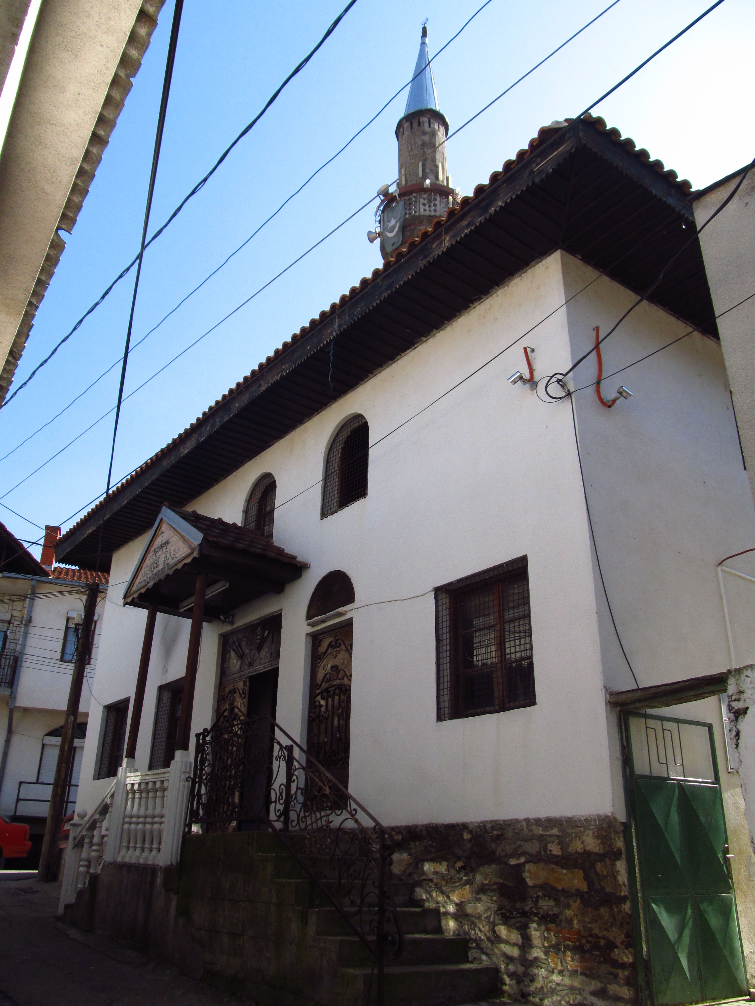 Fazıl Ahmed Pasha Mosque in Veles also known as "Black Džamija"